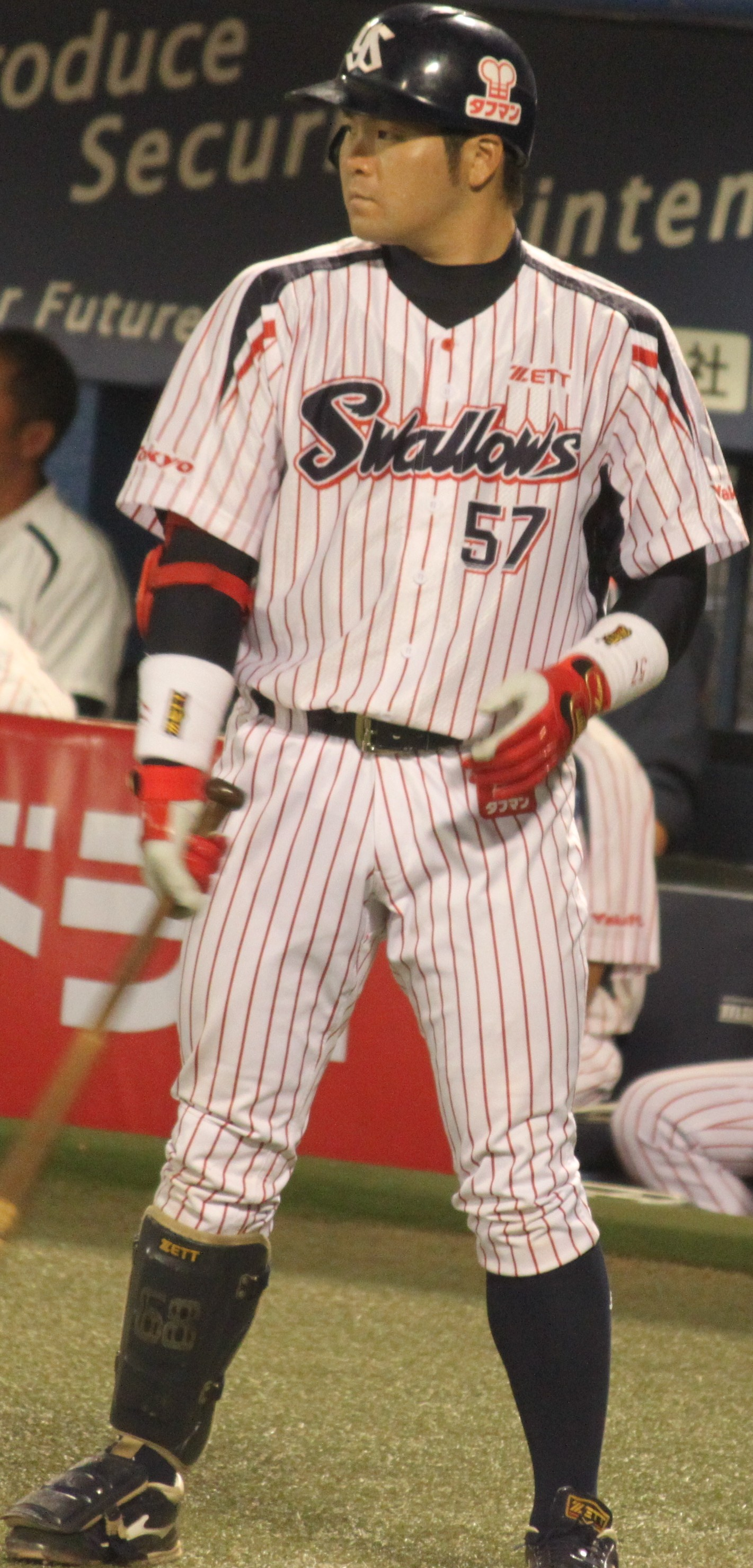 Jun Matsui, outfielder of the Tokyo Yakult Swallows, at Meiji Jingu Stadium.